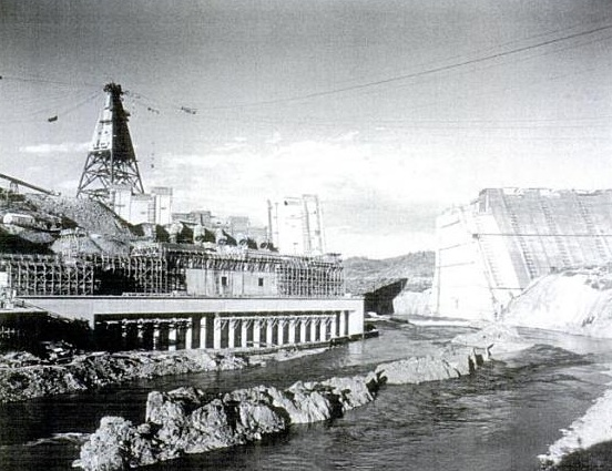 Shasta Dam under construction on March 6, 1942